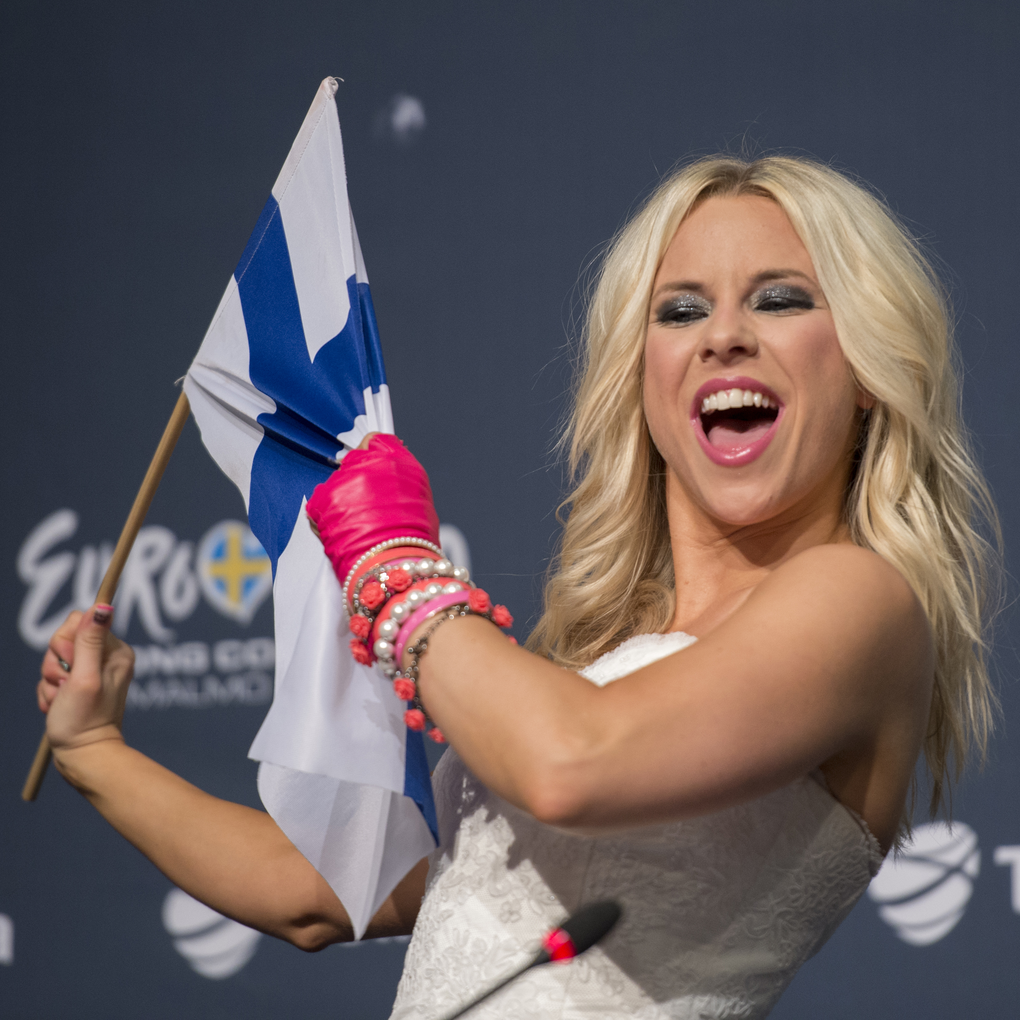 Krista Siegfrids at a press conference during the Eurovision Song Contest 2013 Malmö. (Help translate this text)